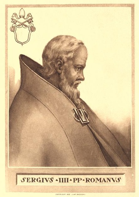 This illustration is from The Lives and Times of the Popes by Chevalier Artaud de Montor, New York: The Catholic Publication Society of America, 1911. It was originally published in 1842.